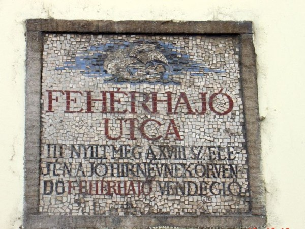 Sign street of Fehérhajó (=White ship) street in Budapest